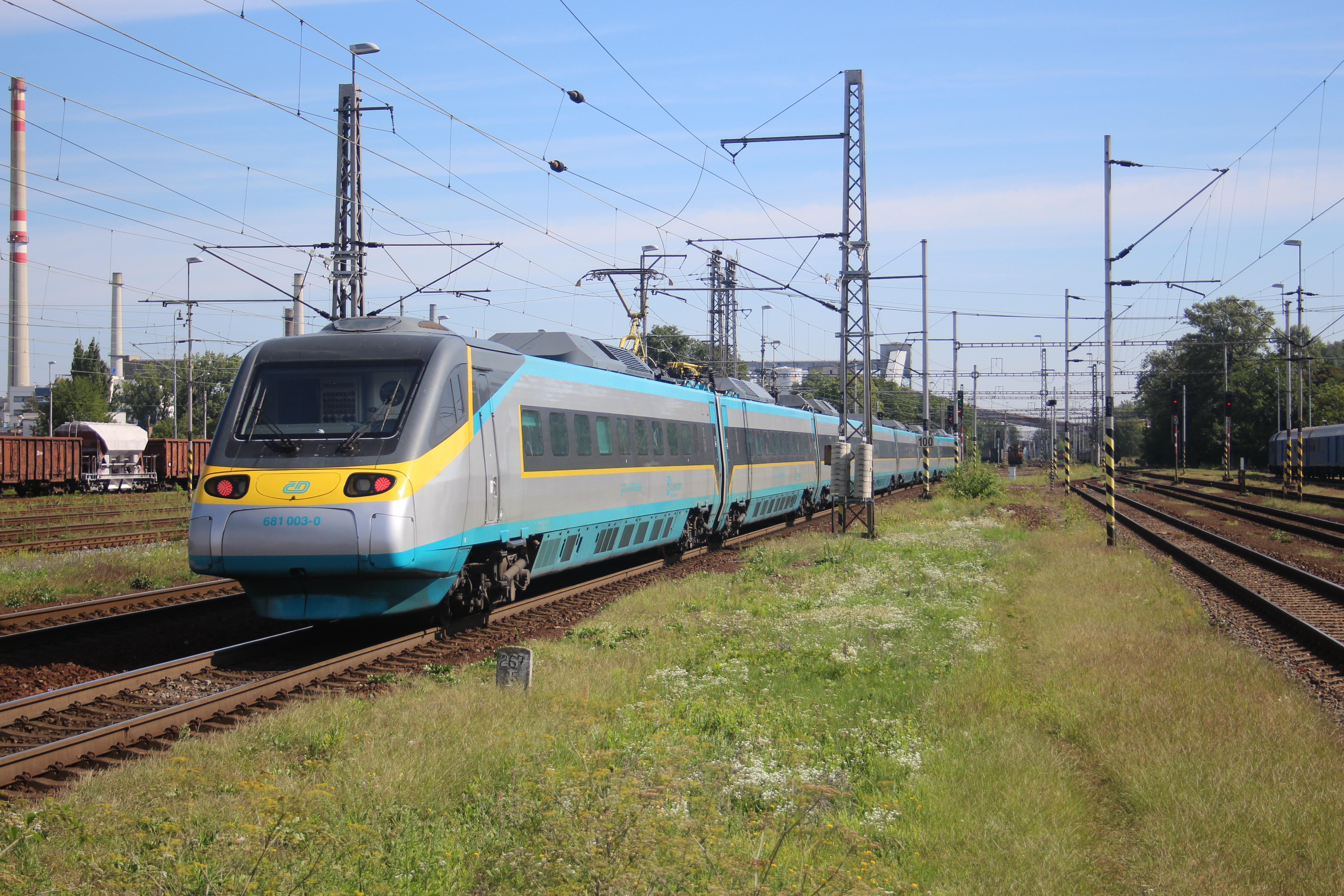 A ČD SuperCity Pendolino departing Ostrava hl.n. This is trainset number 680003. Originating at Praha hl.n., Czechia, it is operating the international SC 241 to Košice, Slovakia.